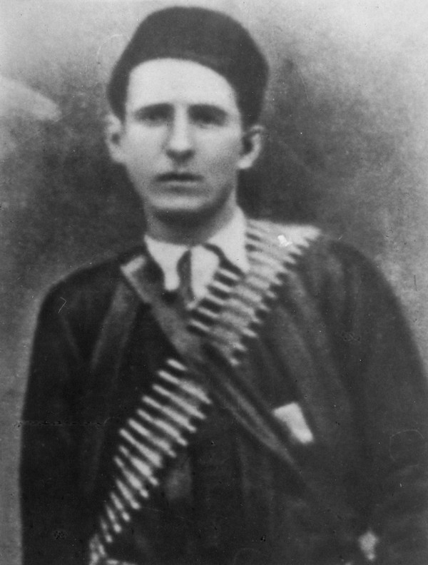 National hero of Yugoslavia